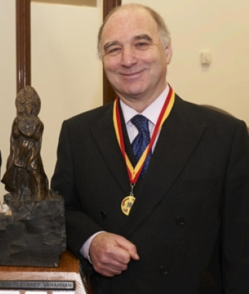 Robert Corteen Carswell in 2013 with the Reih Bleeaney Vanannan trophy and medal.